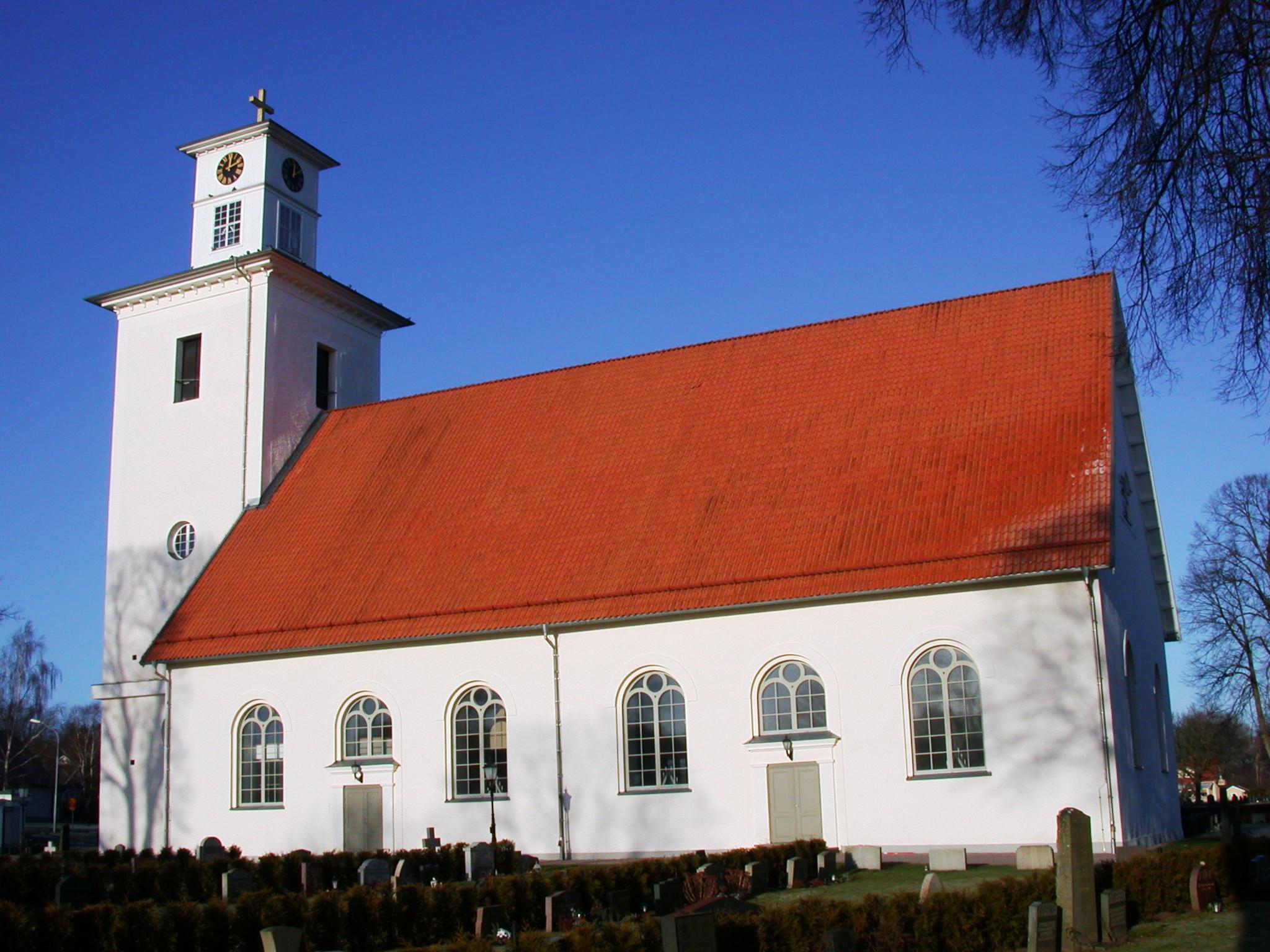 Ryssby church, Kalmar, Sweden